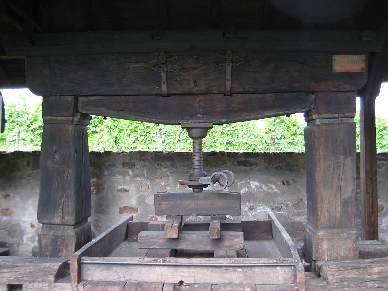 Example of an old wooden wine press.